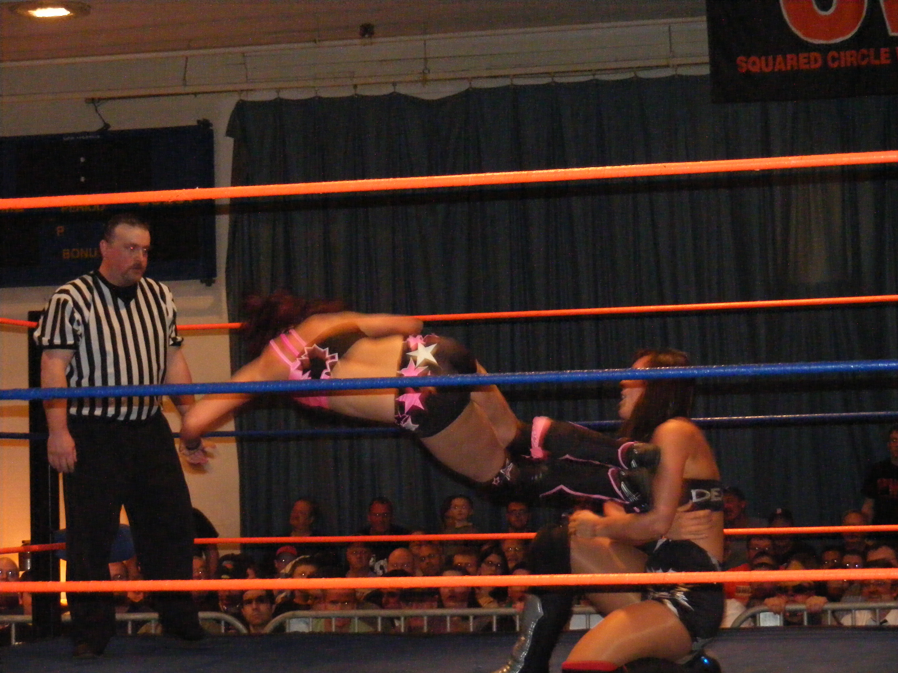 Professional wrestler Portia Perez dropkicking Sara Del Rey at a 2CW show in Syracuse on April 5, 2010.